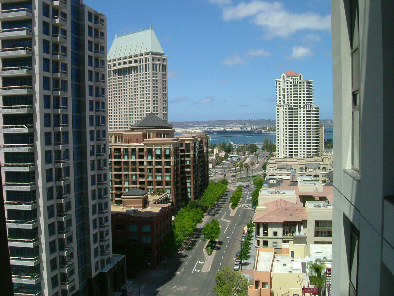 View of the west end of Market Street (Marina District of Downtown San Diego) viewed from the 14th floor of the Renaissance condominiums building, which is located at first and market.